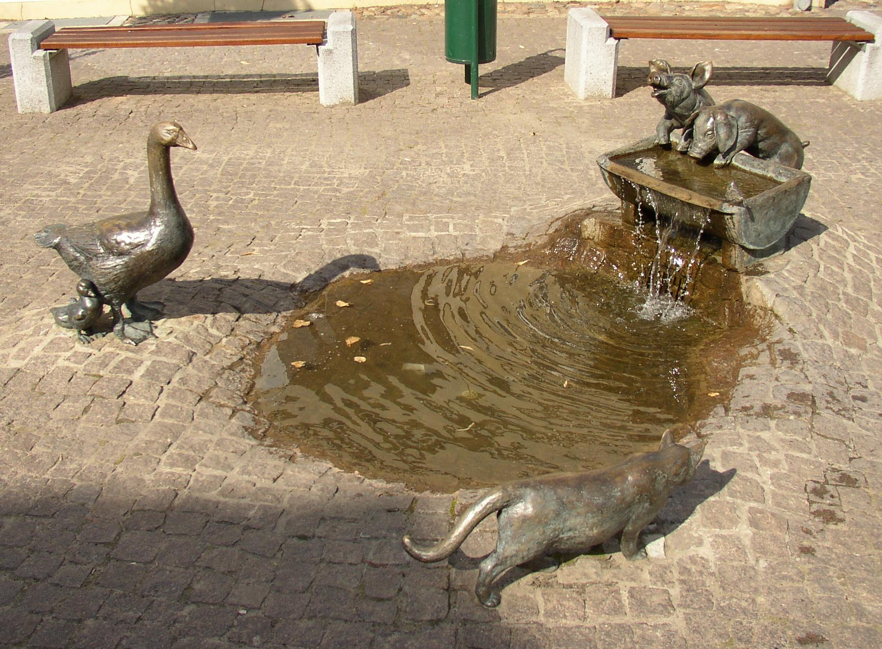 Fountain in Perleberg in Brandenburg, Germany